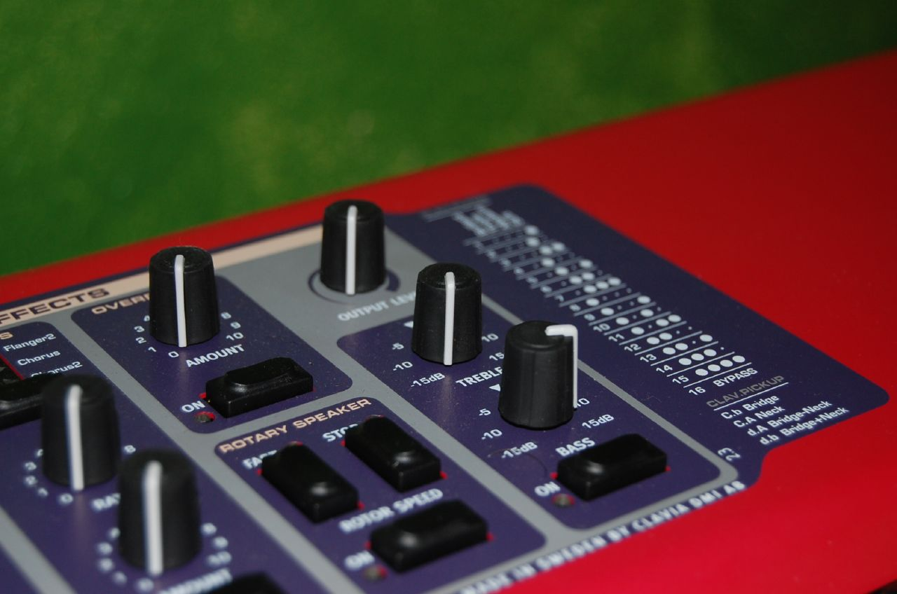 First photo on my new Nikon D40.